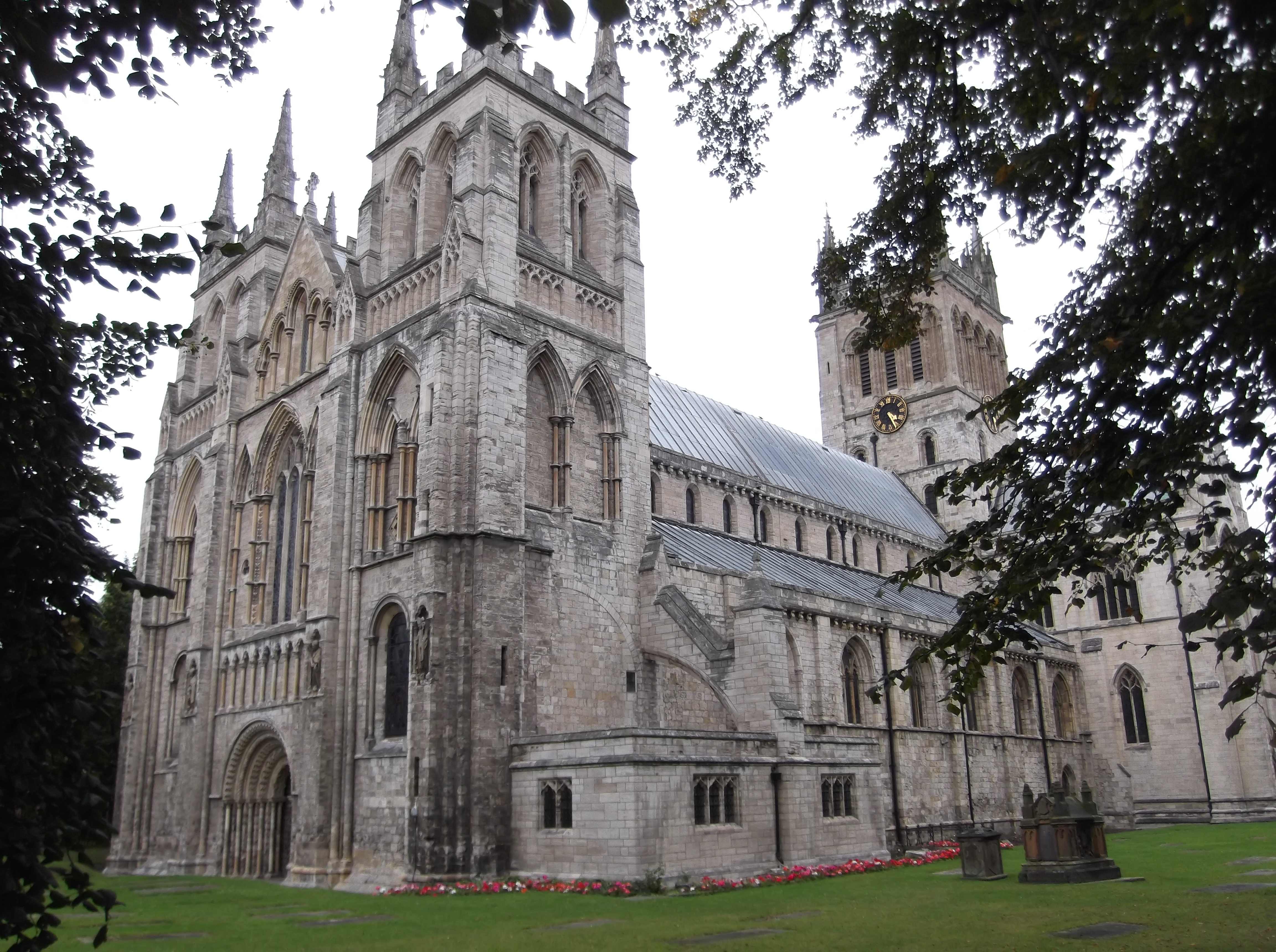 Photograph of Selby Abbey, North Yorkshire, England